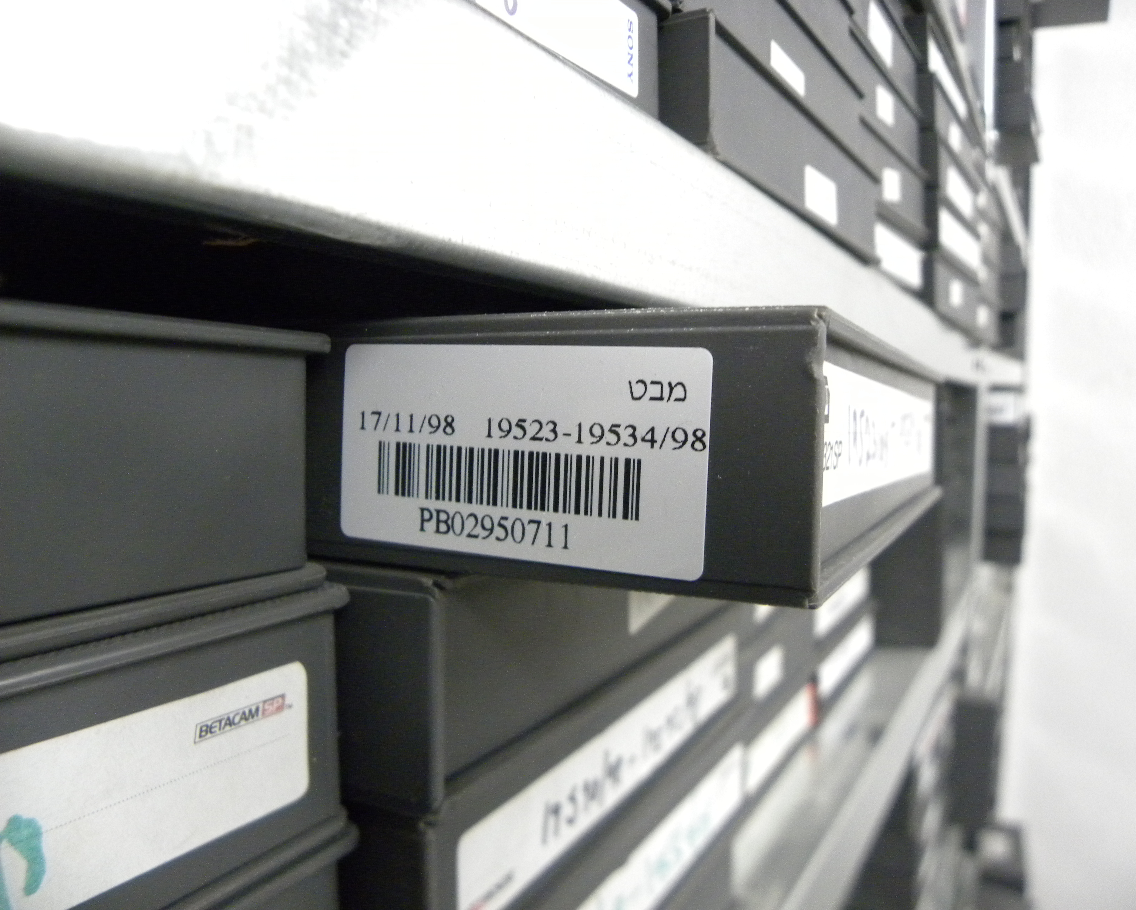 Israel Broadcasting Authority's archive of television recordings